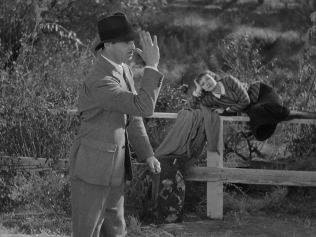 Cropped screenshot of Clark Gable and Claudette Colbert from the trailer for the film It Happened One Night.